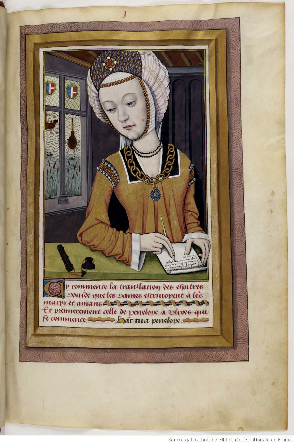 Plate from Ovide , Héroïdes ou Epîtres , translation by Octavien de Saint-Gelais. The Héroïdes (The Heroines) or Epîtres (Letters of Heroines), is a collection of fifteen epistolary poems composed by Ovid in Latin elegiac couplets and presented as though written by a selection of aggrieved heroines of Greek and Roman mythology in address to their heroic lovers who have in some way mistreated, neglected, or abandoned them. This portrait is of Penelope writing to Ulysses.